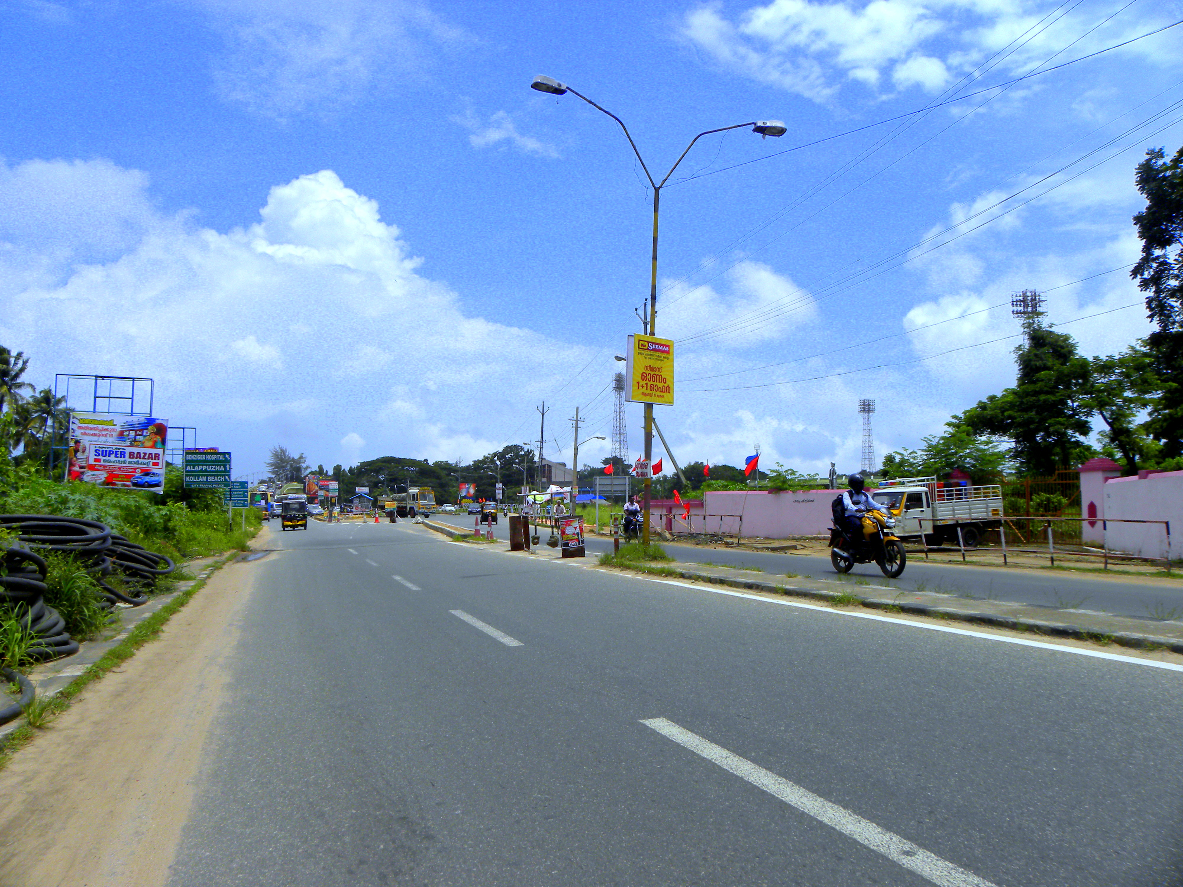 SP Office Flyover Junction, Kollam